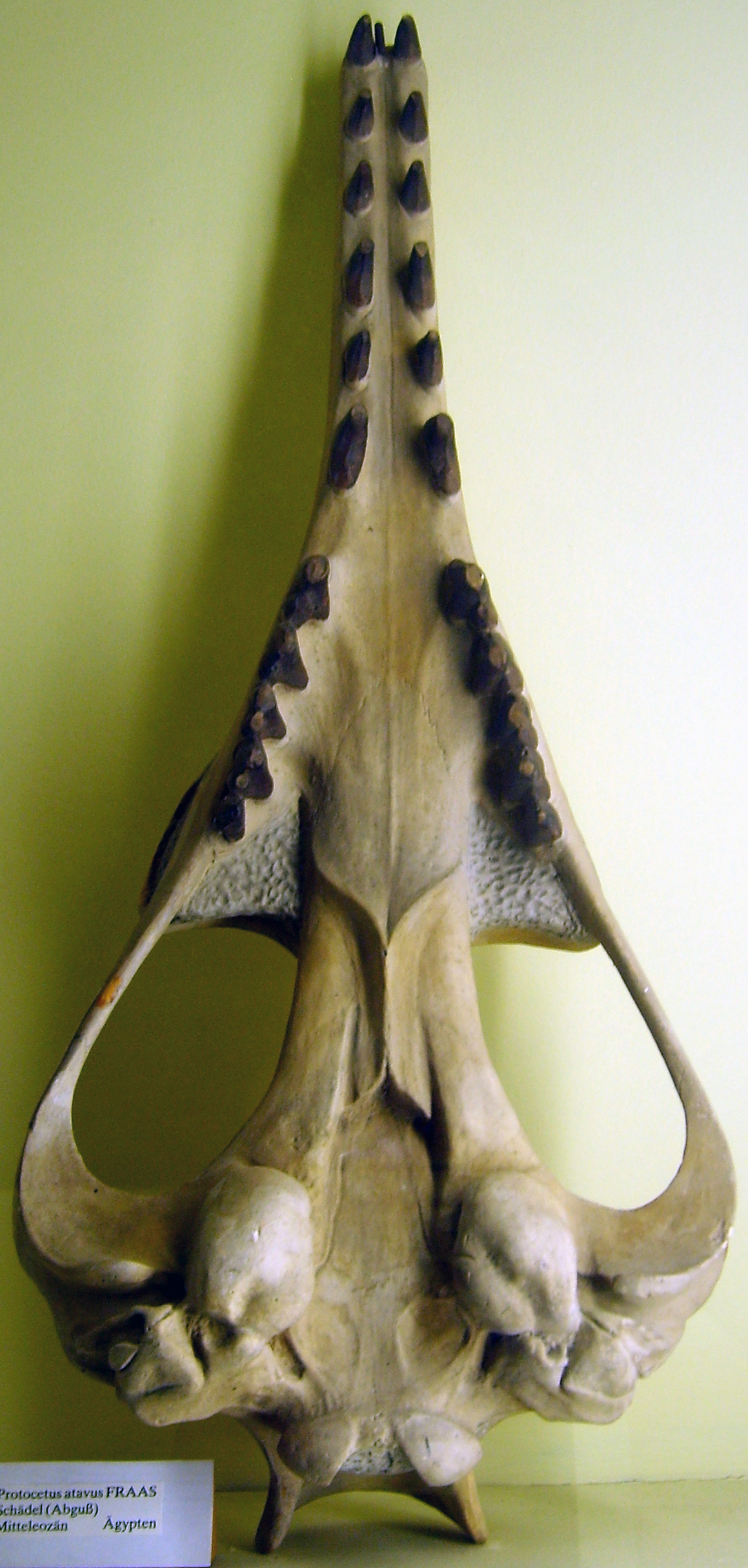 Protocetus atavus skull cast at the Museum für Naturkunde, Berlin.